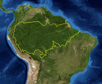 This is a map location of the Amazon Basin. The yellow line encloses Amazon Basin as delineated by the World Wide Fund for Nature. National boundaries are shown in black. I, Pfly, made it using NASA Blue Marble imagery and ecoregion GIS data which I simplified and digitized in Photoshop.